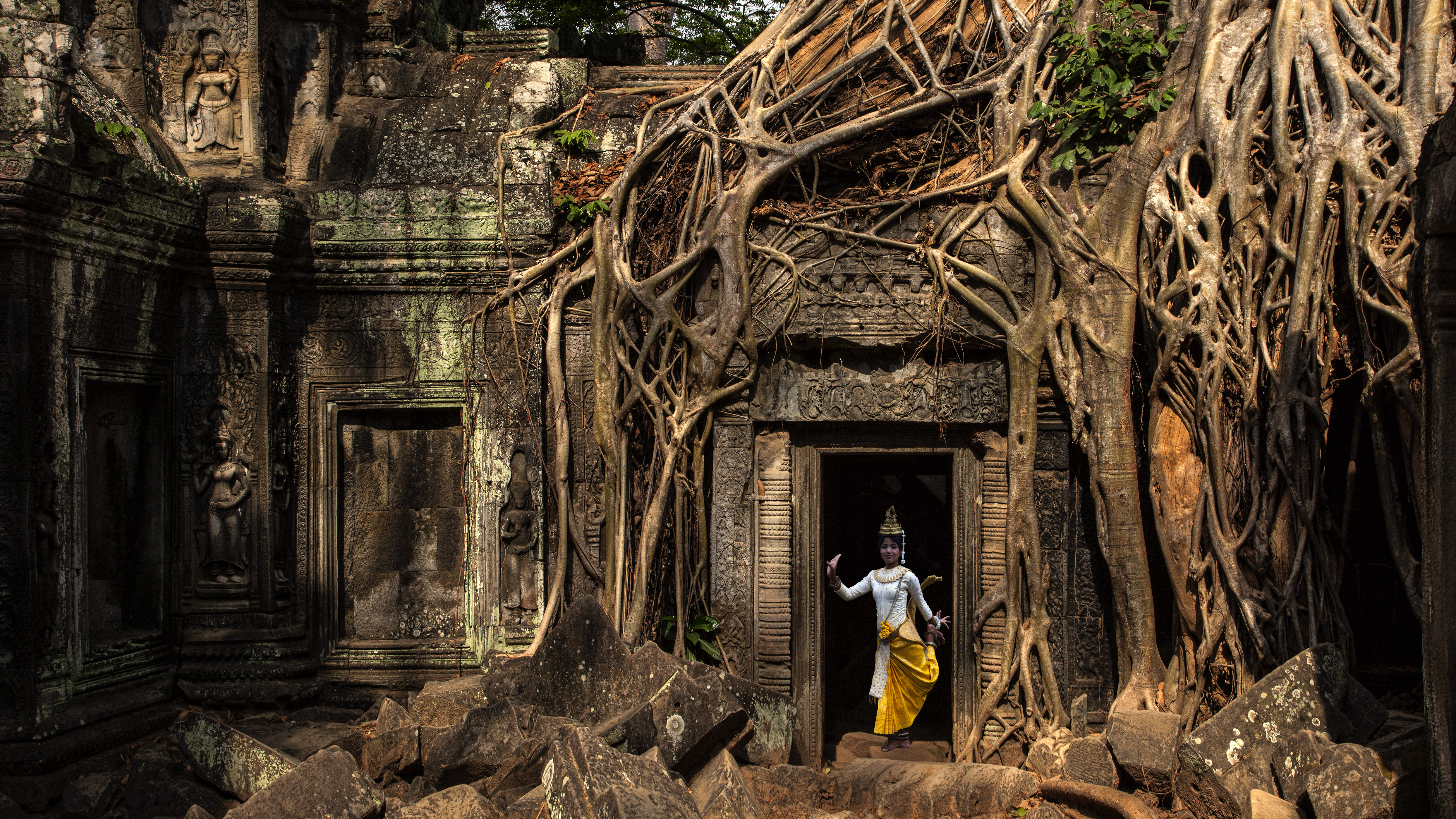 Ta Prohm - the temple at Angkor, Siem Reap Province, Cambodia